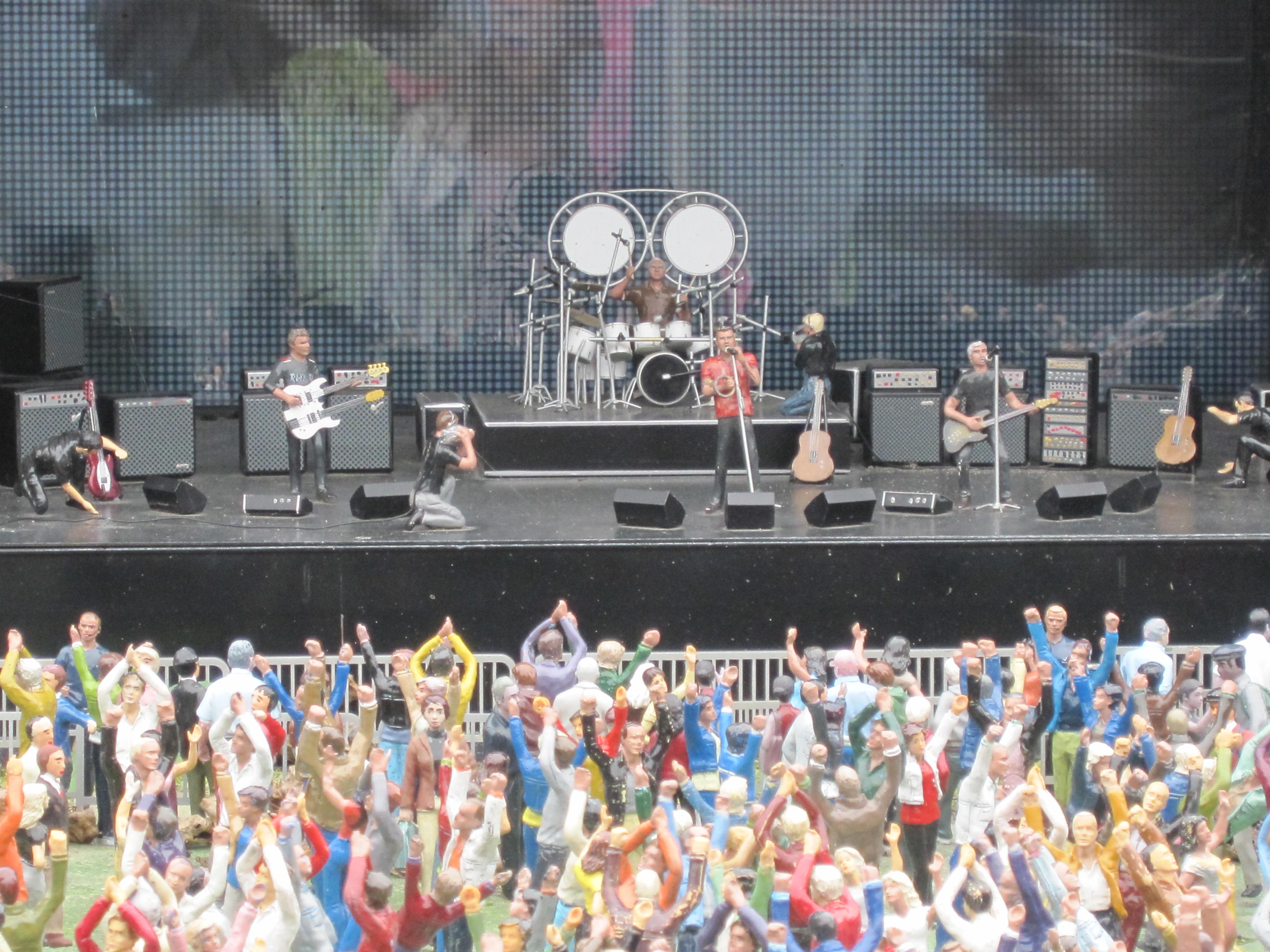 The Dutch band Golden Earring in miniature at Madurodam, the Hague